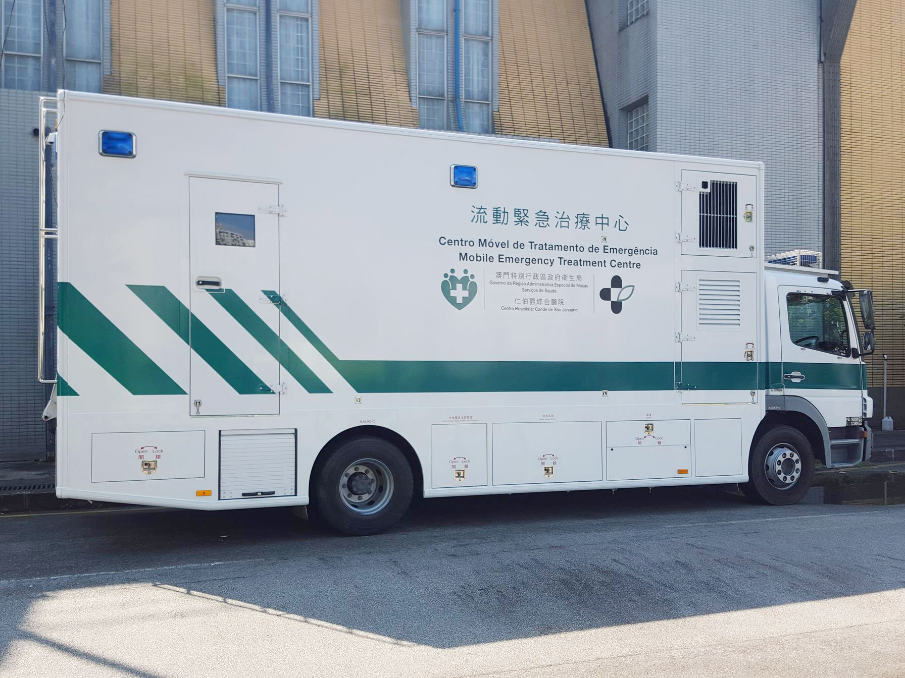 Mobile Emergency Treatment Centre